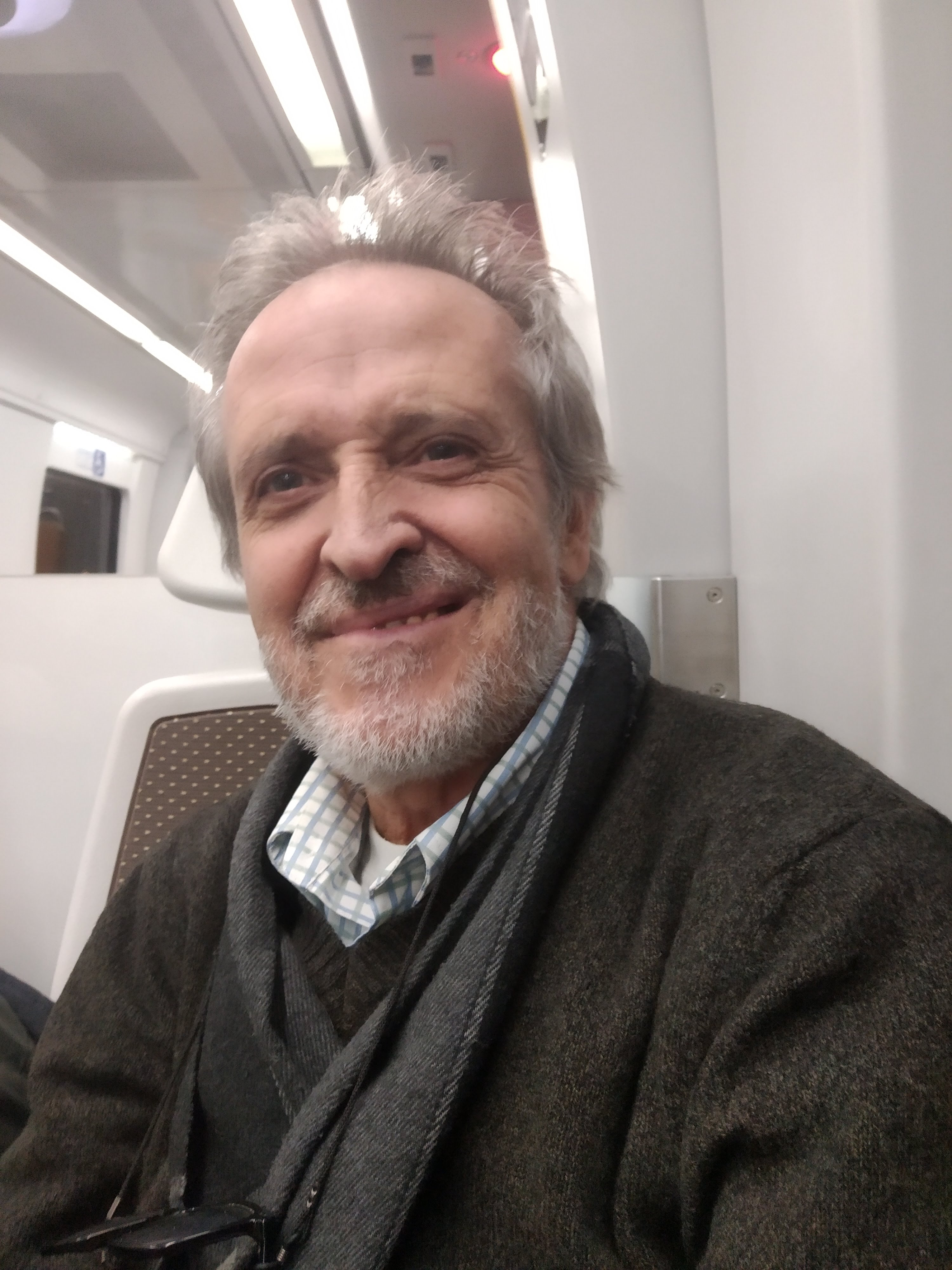 Txema Auzmendi, Basque jesuit